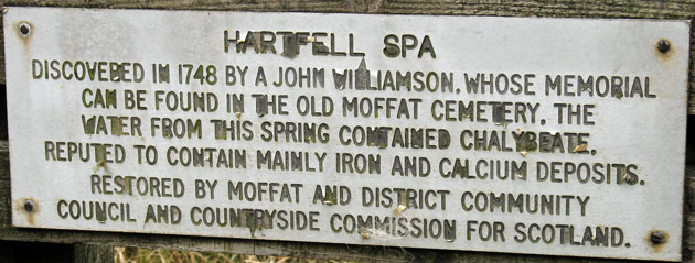 Sign outside entrance of Hartfell Spa